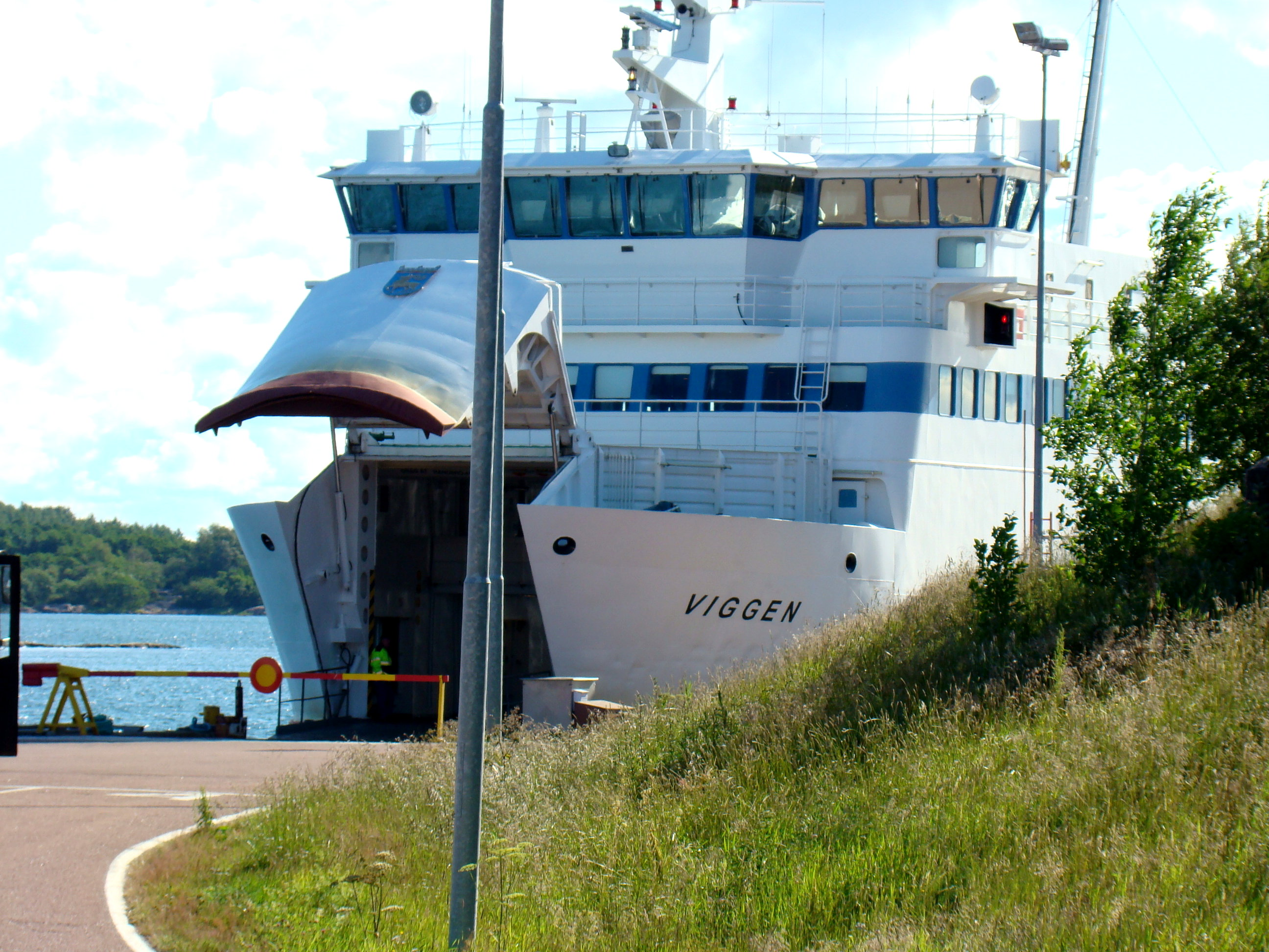 M/S Viggen in Brändö, Finland